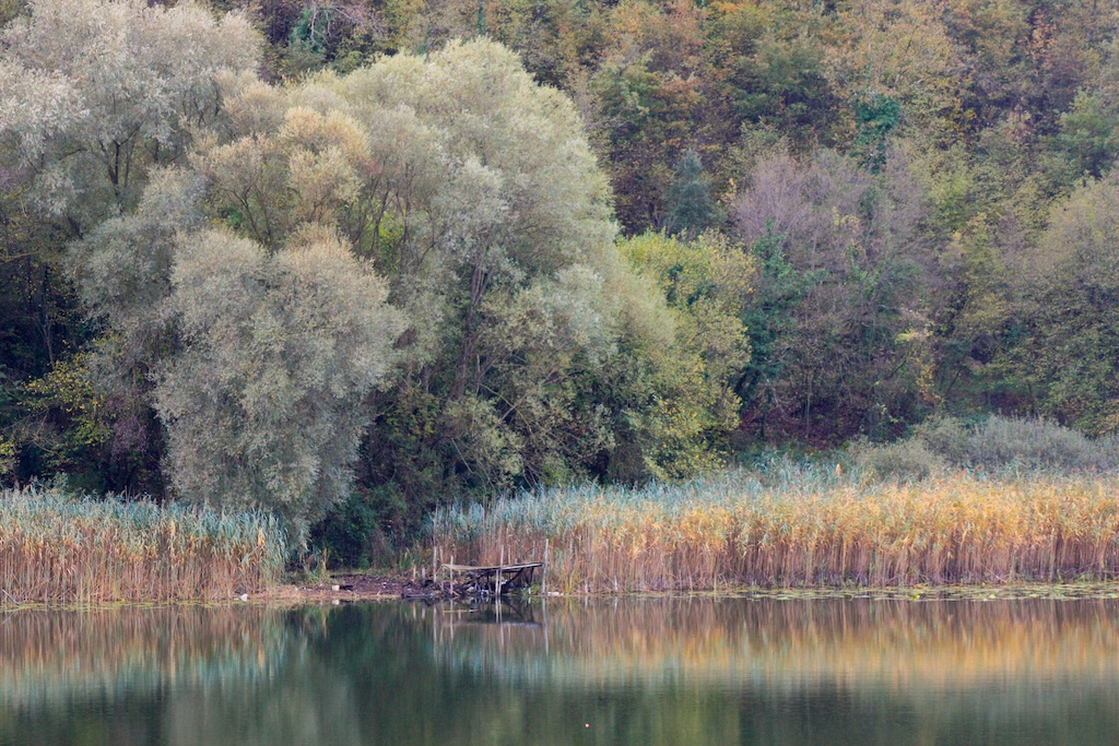 Pier over Ventina lake (Lazio, Italy)